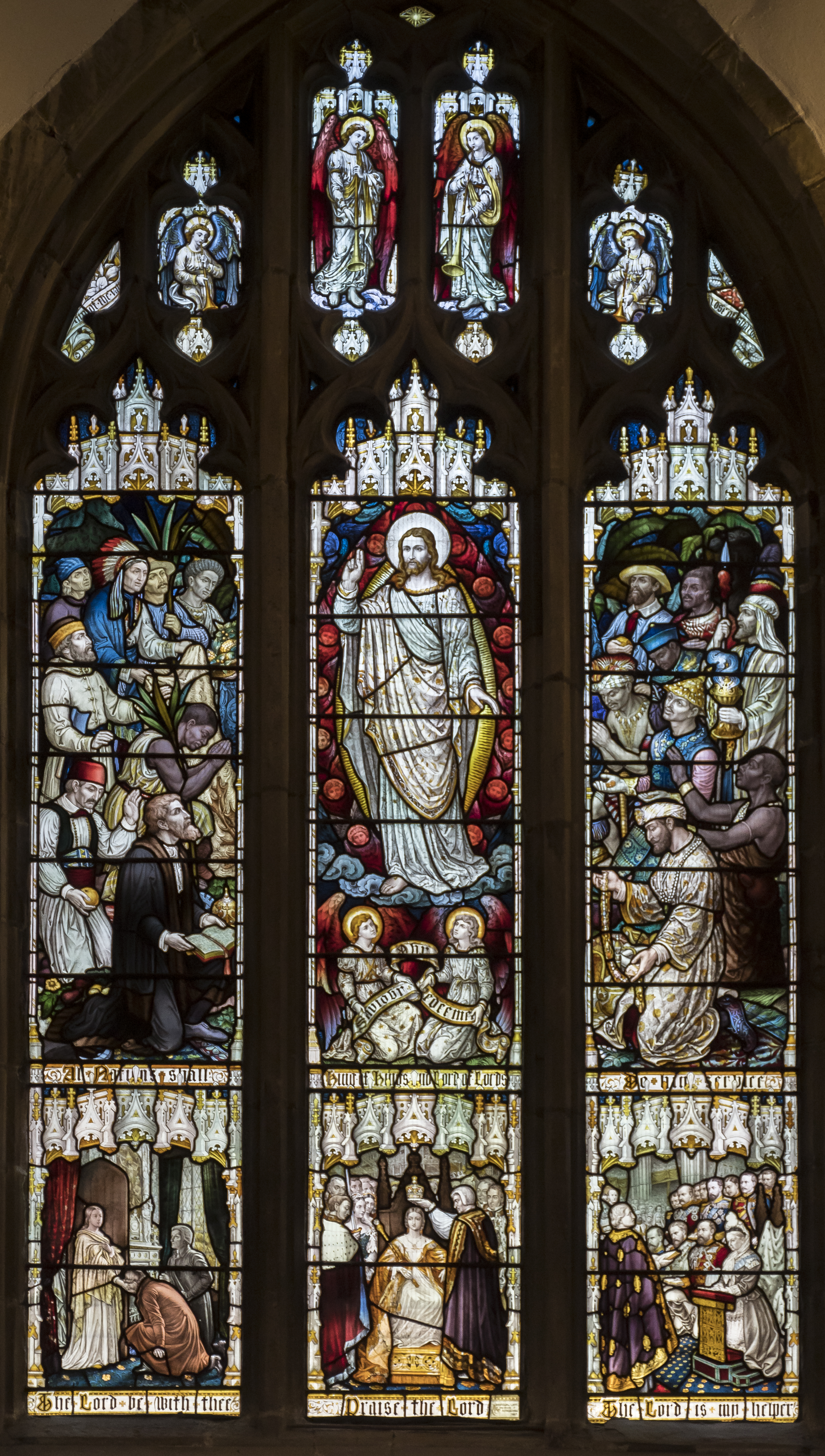 A window to mark Queen Victoria's Golden Jubilee by R. W. Winfield & Co. Desined by Thomas Camm. The predella shows scenes from key moments in Victoria's reign.